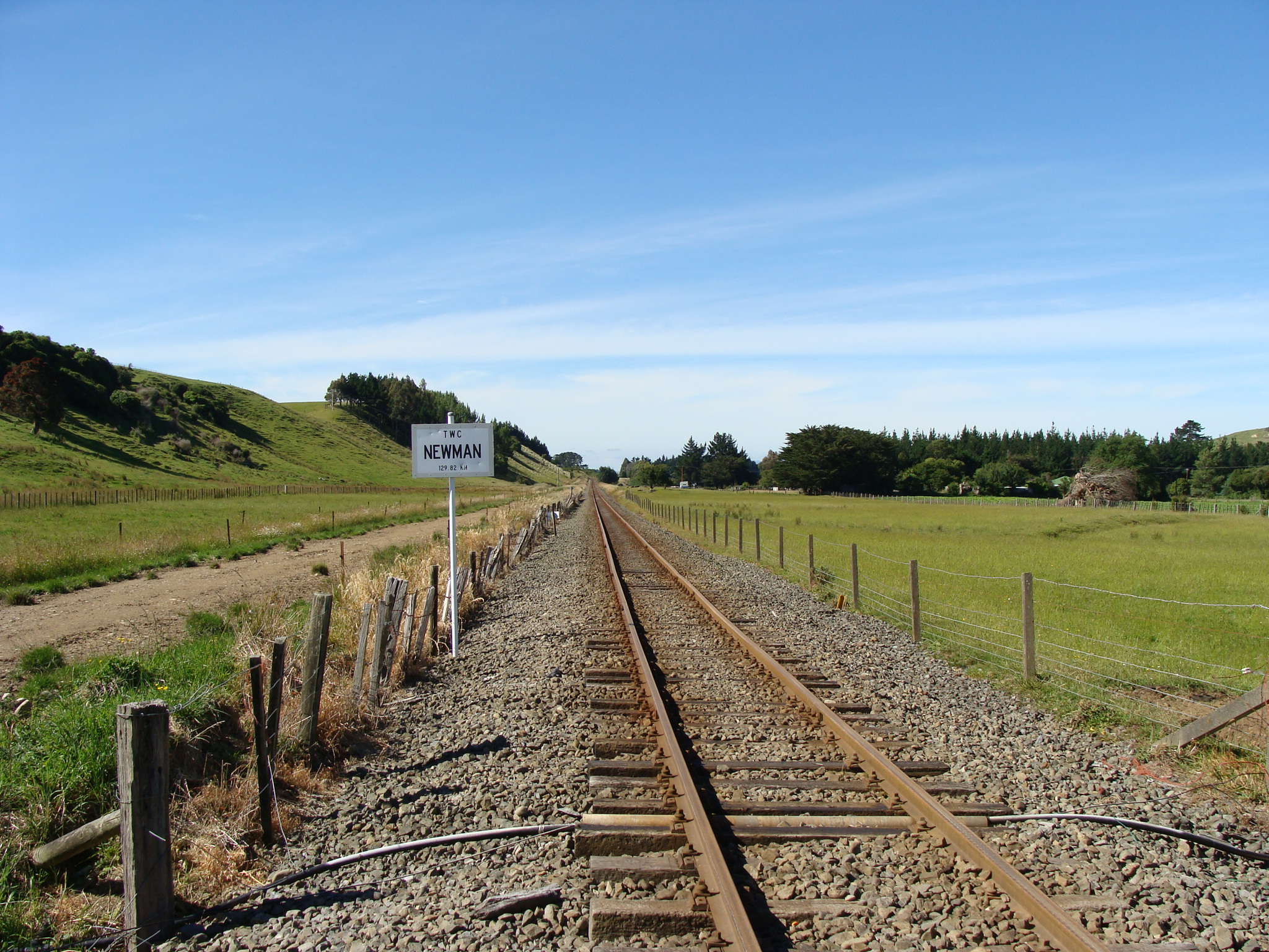 Newman railway station, from the south. The only formed access to the station site is the stock race to the left.